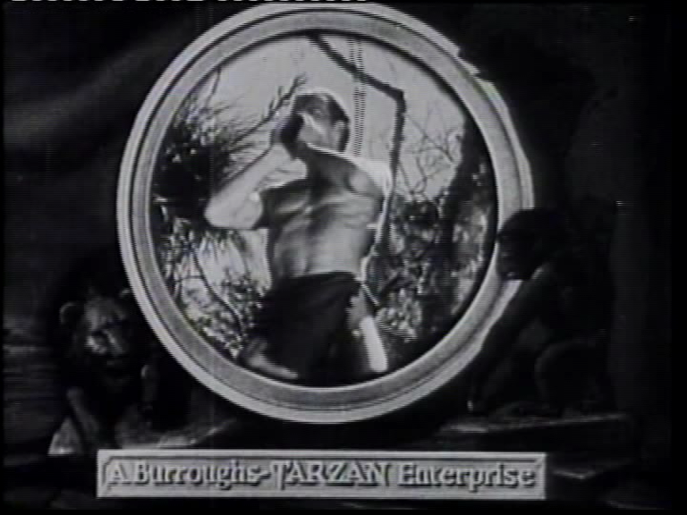 A screenshot of Herman Brix doing the Tarzan Yell from the opening credits of the American serial The New Adventures of Tarzan